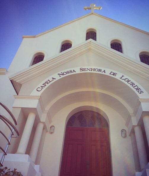 Our Lady of Lourdes Chapel (Marília - SP)